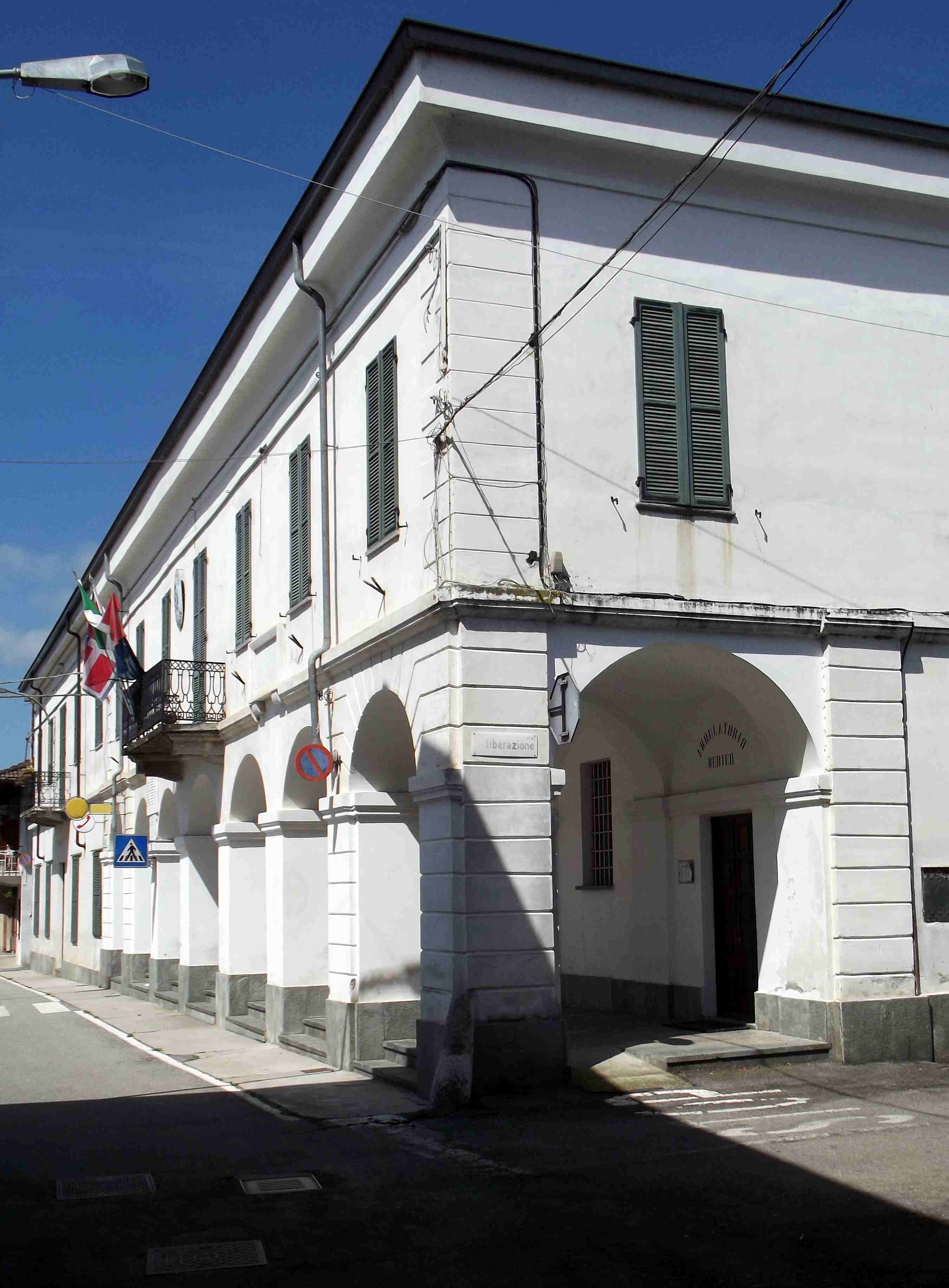 Lusigliè (TO, Italy): town hall